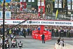 Start of 2008 Chicago Marathon in Grant Park. Art Institute in Background.